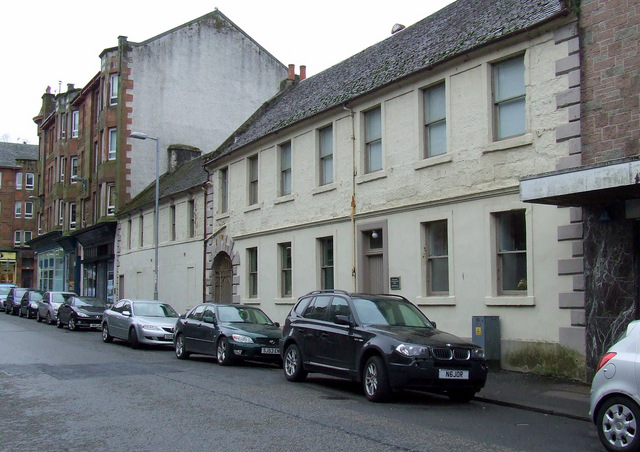 9 & 11 King Street